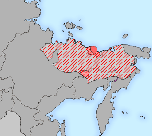 The map of distribution of Yukaghir languages (red) in the XVII century (approximate; hatching) and in the end of XX century (continuous background). Chuvans now speaking Chukchi and Russian marked pink.